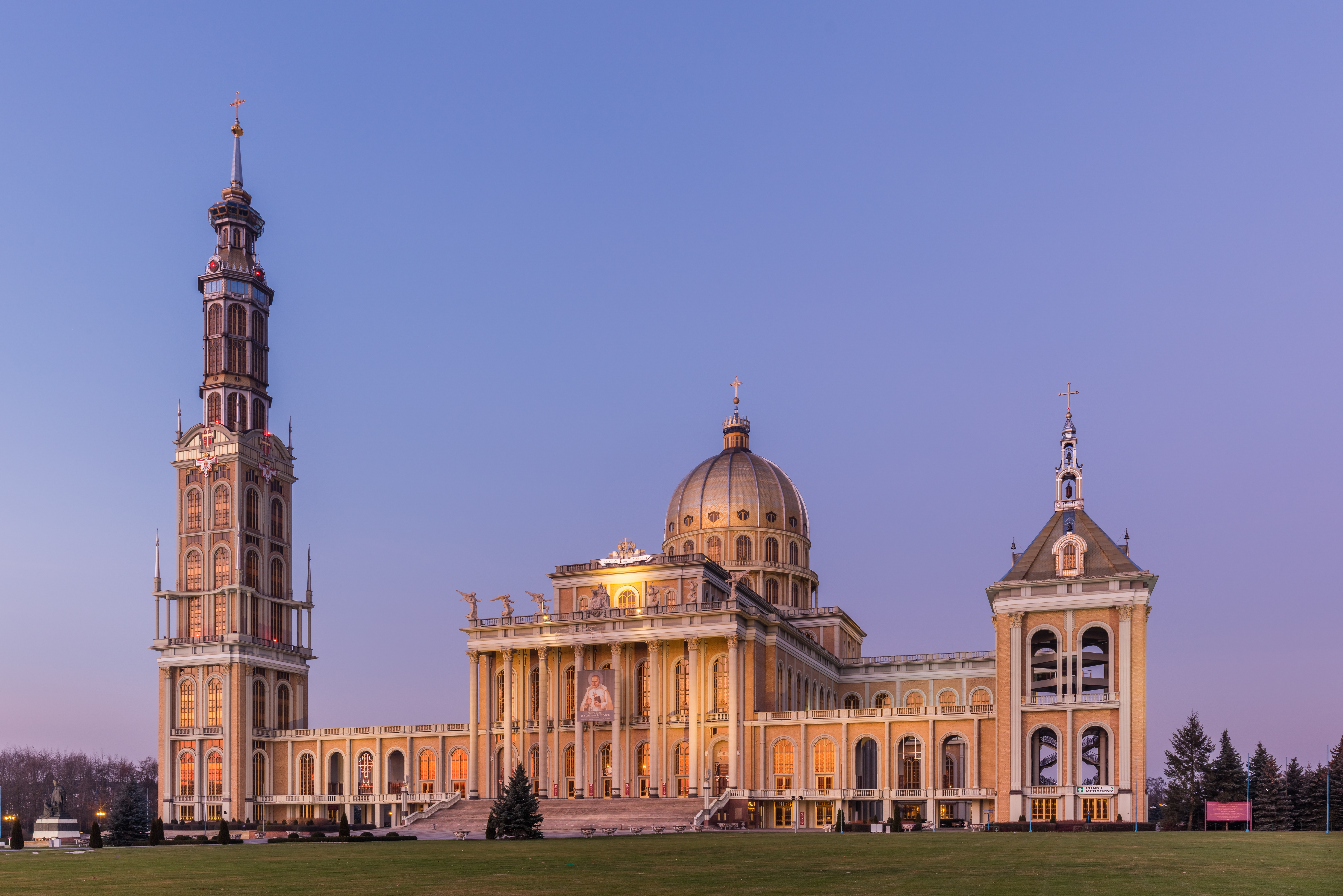 View at dusk of the Basilica of Our Lady of Sorrows, Queen of Poland, located in the village of Licheń Stary, near Konin, Greater Poland Voivodeship, Poland. The basilica, designed by Barbara Bielecka was built between 1994 and 2004. With a 120 metres (390 ft) long and 77 metres (253 ft) wide nave, a 98 metres (322 ft) high central dome, and a 141.5 metres (464 ft) high tower, it is Poland's largest church and one of the largest churches in the world.